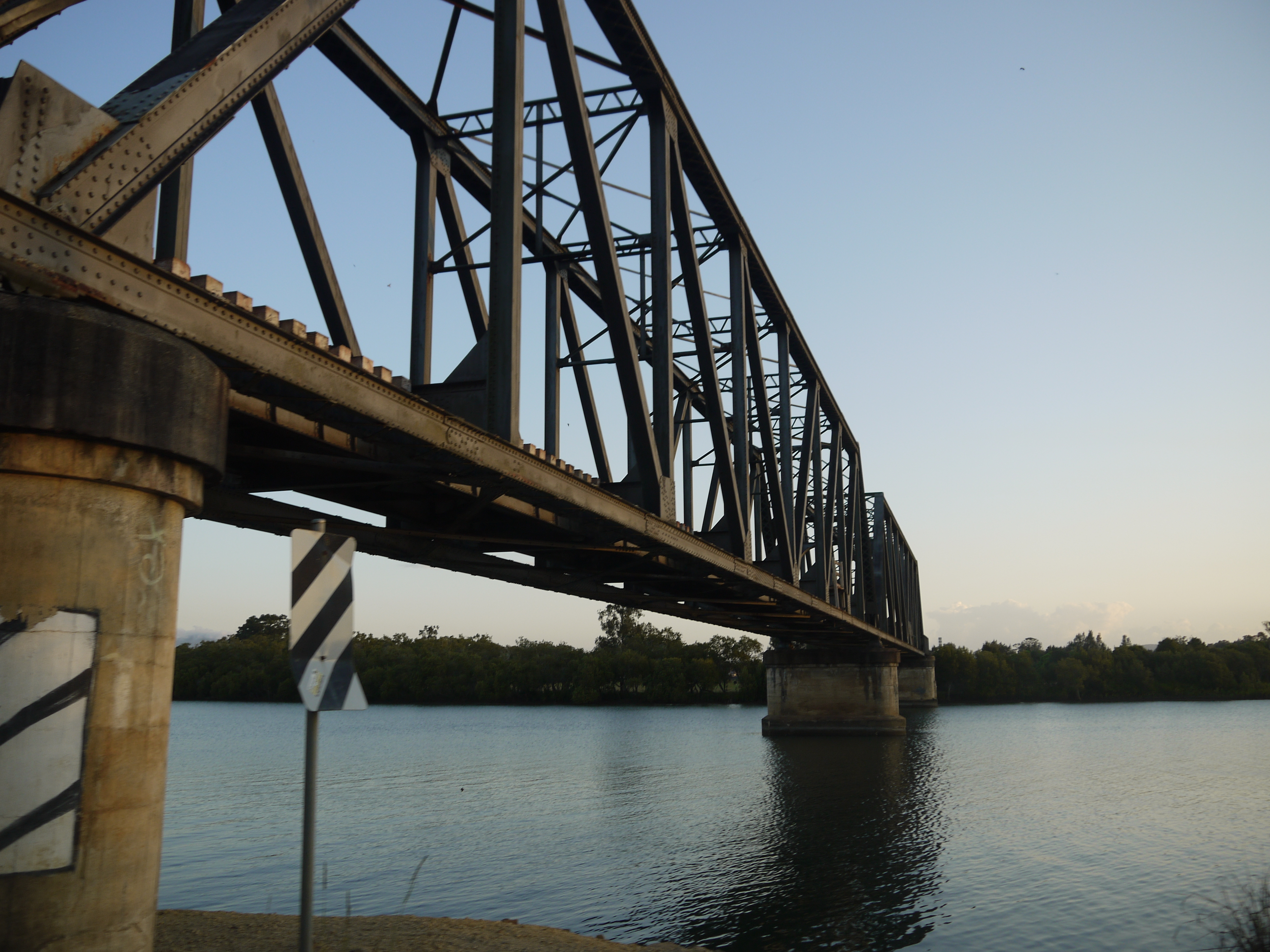 North Coast Railway Bridge near Macksville. Crossing the Nambucca River